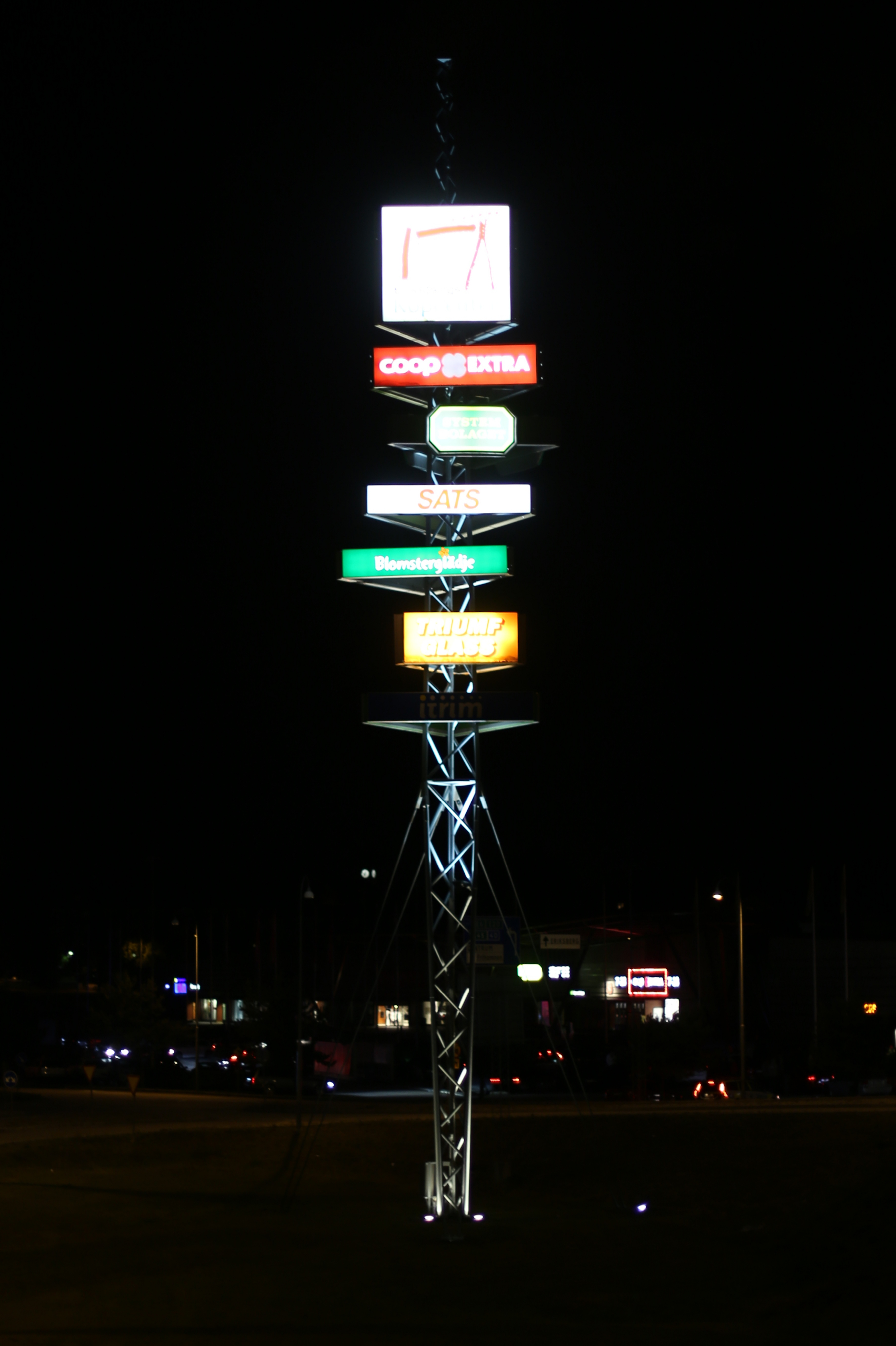 The sign next to Eriksbergs shopping center at night